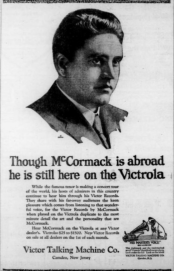 Newspaper ad for records with tenor John McCormack, on page 3 of the February 14, 1921 Duluth Herald.